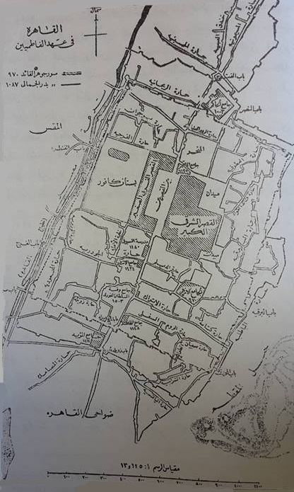 A Sketch of Cairo as it looked during the Fatimid era.